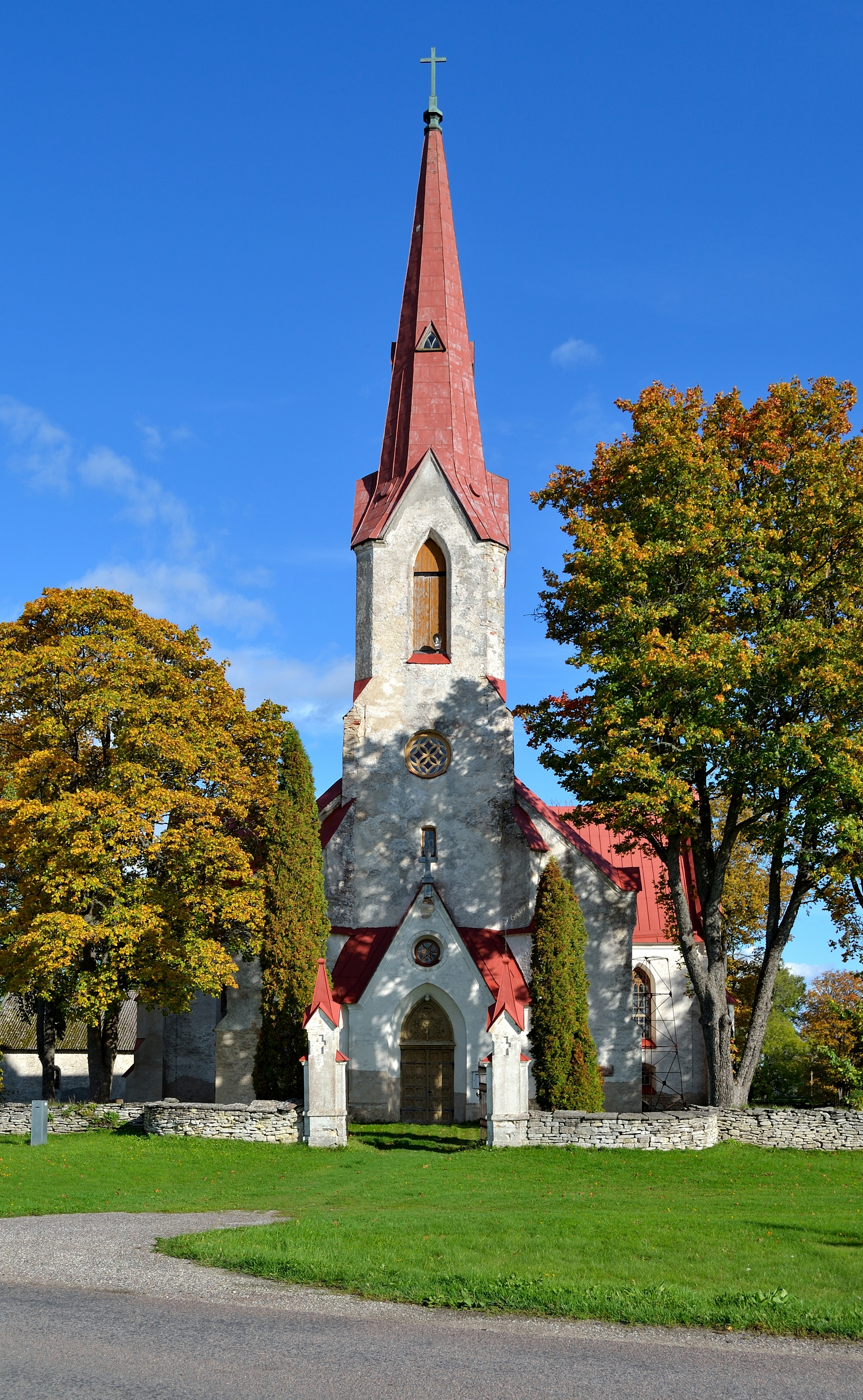 Juuru church This photograph was taken with a Nikon D3100